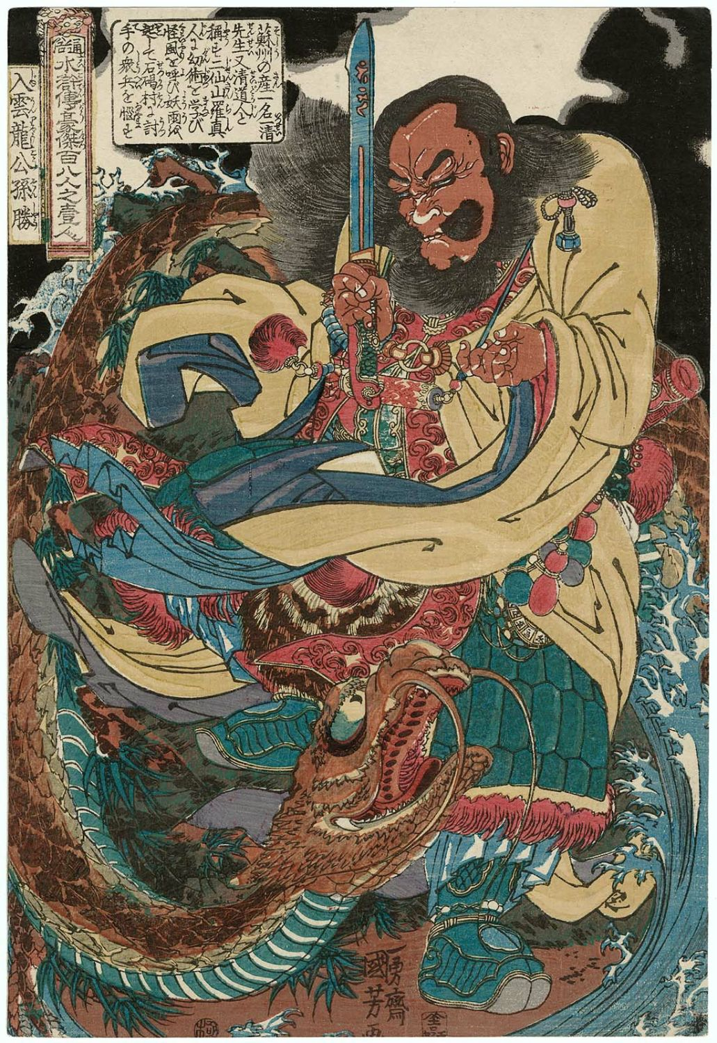 Gongsun Sheng (公孫勝) holding up a short sword and making a magical gesture with his other hand, invokes wind, waves, and a dragon.